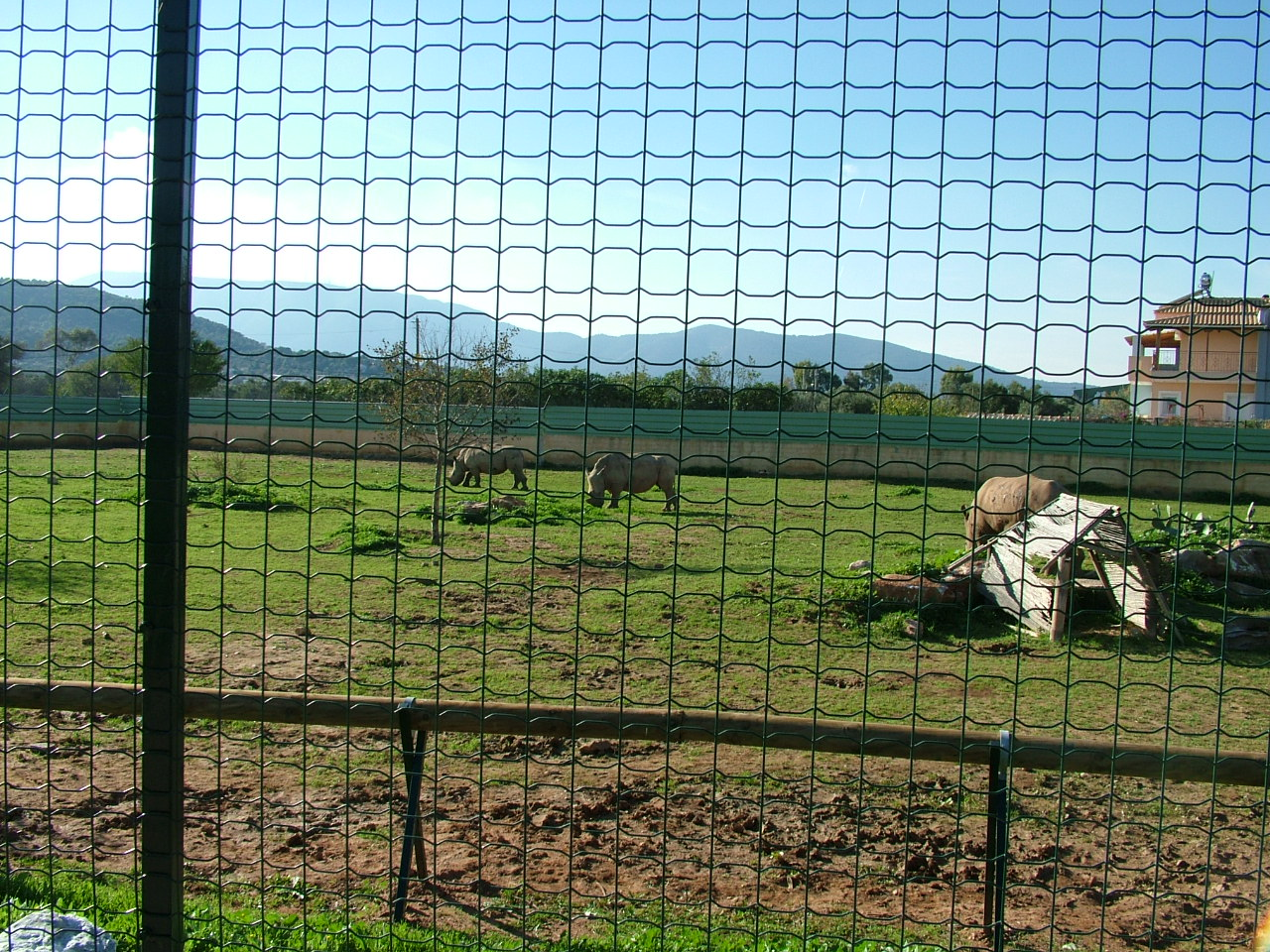 Attica Zoological Park